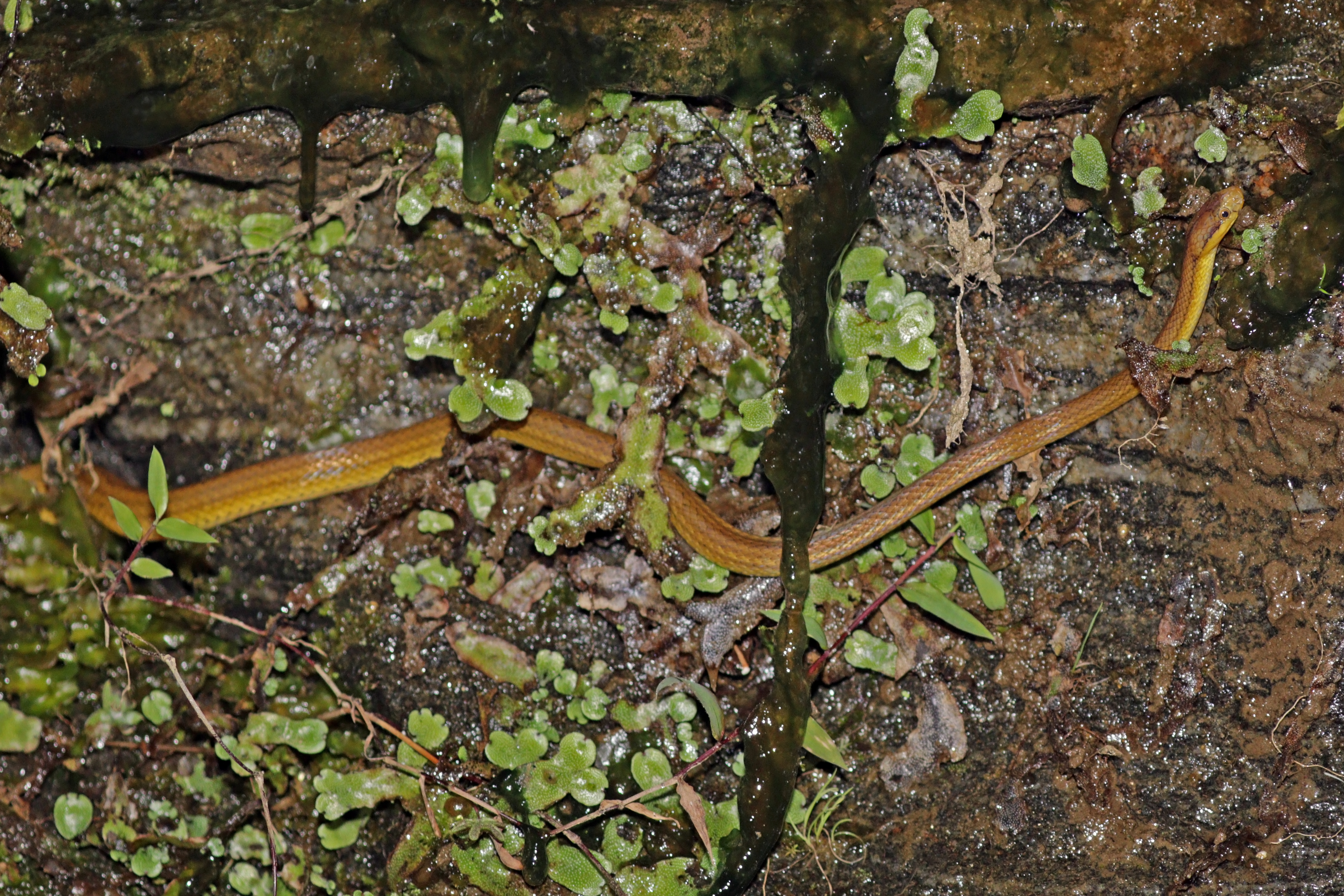 Gluttonous bighead snake (Compsophis laphystius), Ranomafana National Park, Madagascar